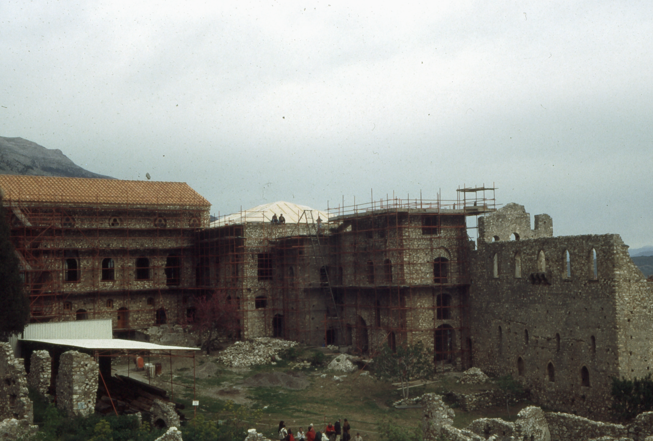 Palace Courtyard of Mystras, spring 2001